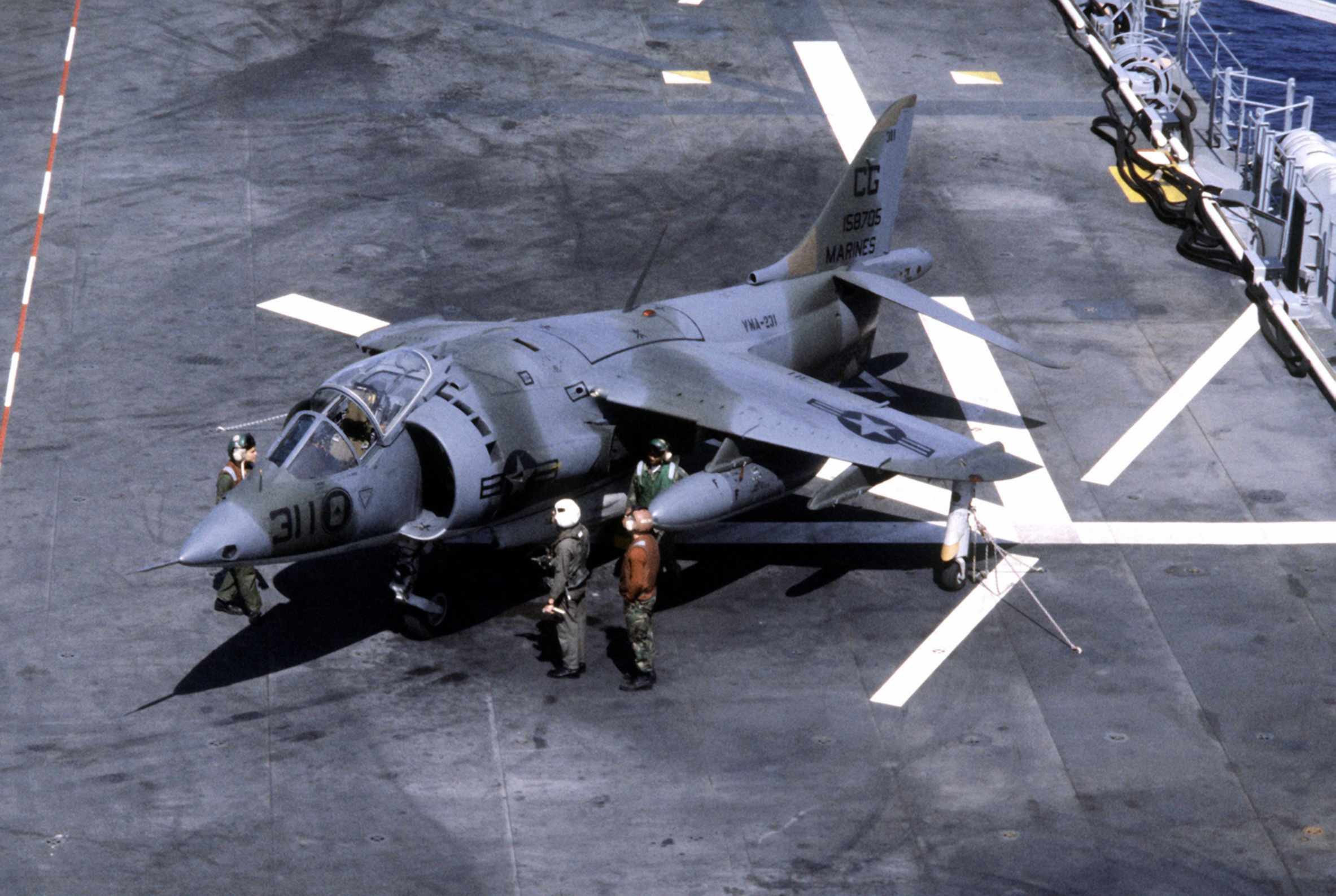 U.S. Navy flight deck crewmen prepare a U.S. Marine Corps Hawker Siddeley AV-8A Harrier from Marine Attack Squadron VMA-231 Ace of Spades for flight on the amphibious assault ship USS Nassau (LHA-4) in 1982.